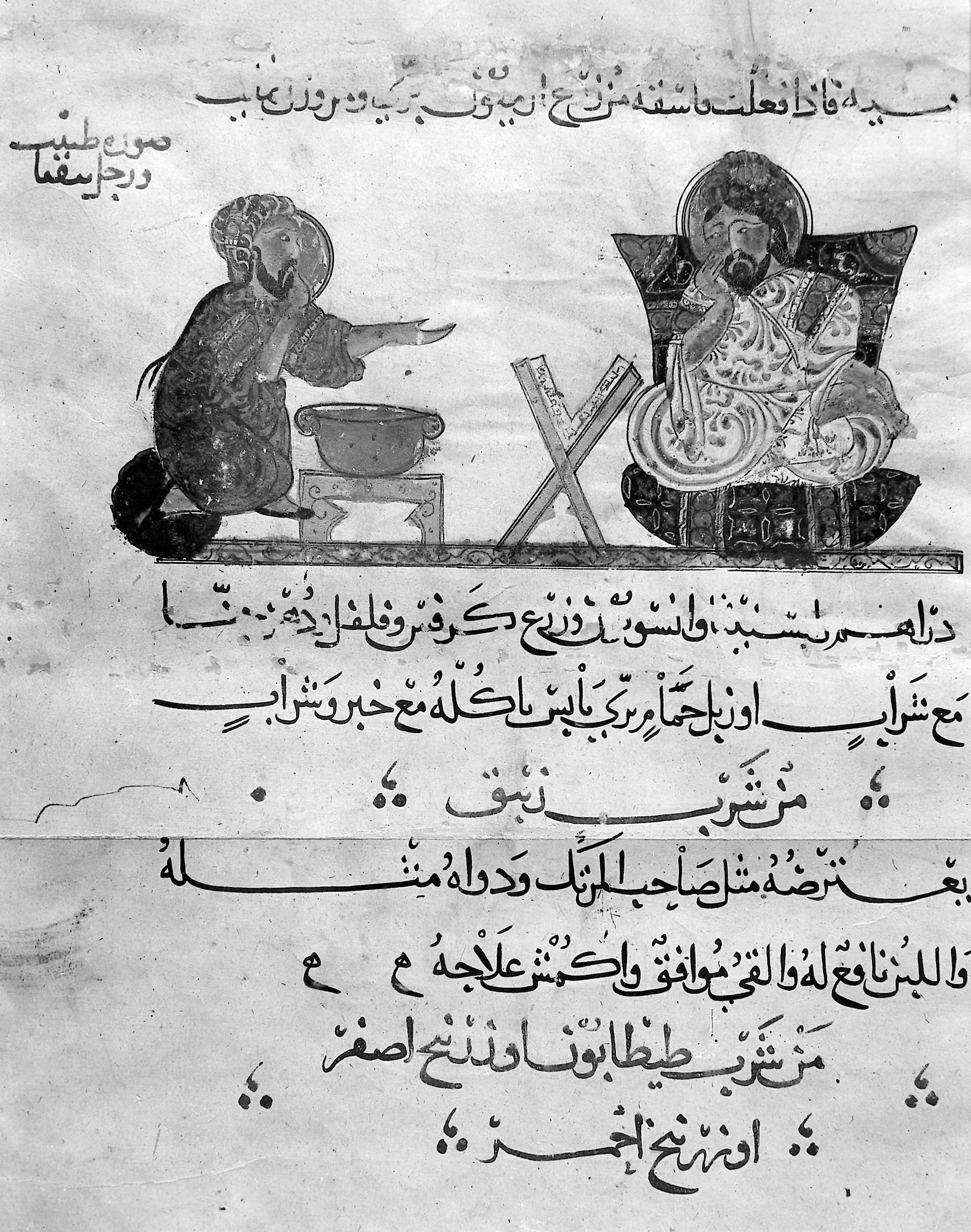 Arab physician and patient, from Arabic manuscript Asian Collection Keywords: History of Medicine; medicine, islamic